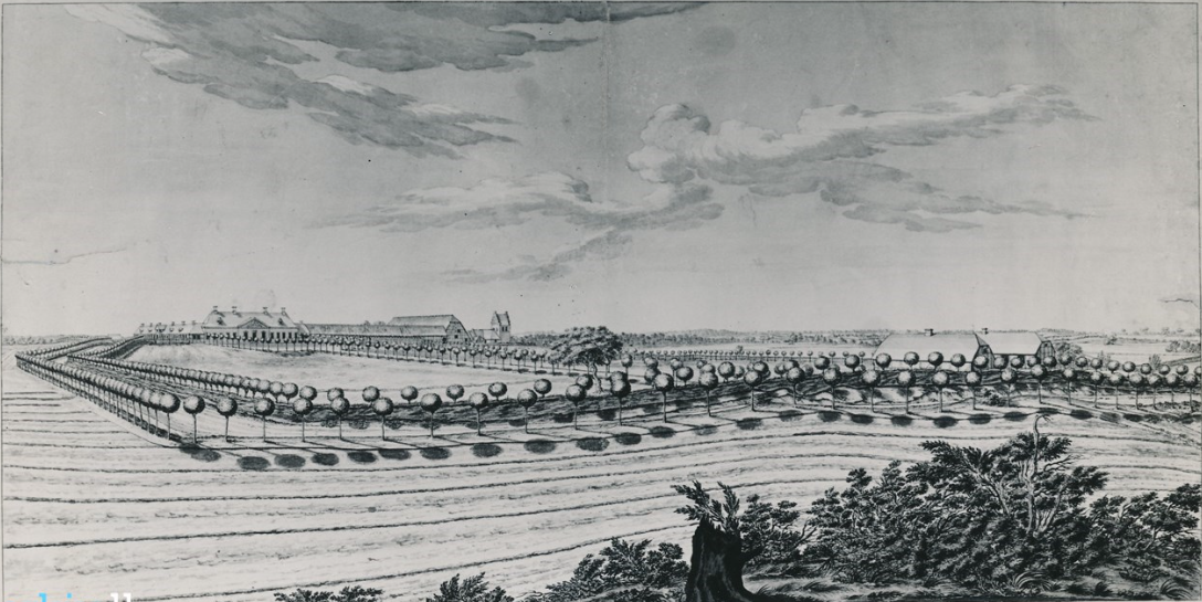 Drawing of Turebyholm in the parish of Haslev, Faxe Municipality, Denmark